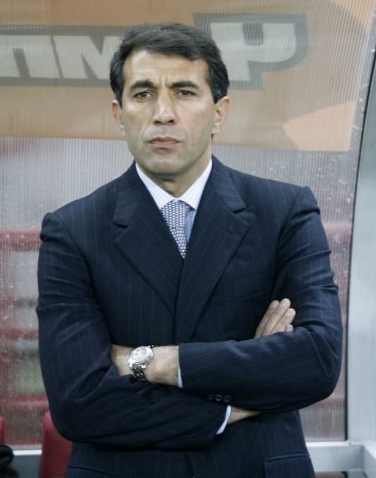 Rashid Rahimov